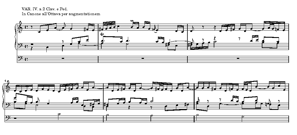 Opening of 4th variation of Canonic Variations, BWV 769, by J. S. Bach, extracted from lilypond file